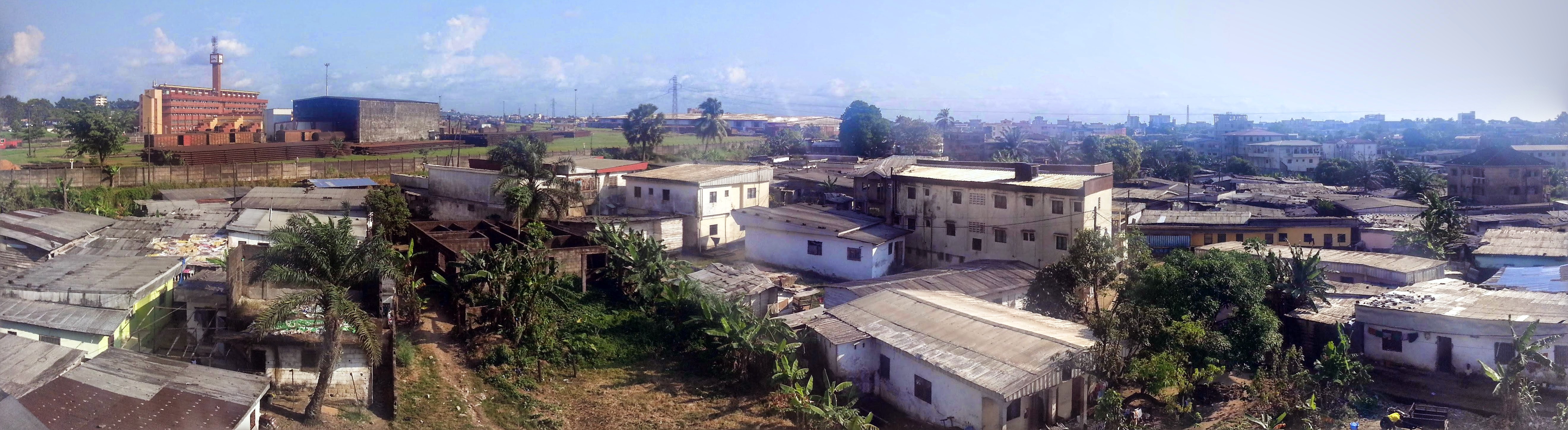 Panorama picture taken from Hotel Les Vallees des Princes, Douala. View includes the train station.